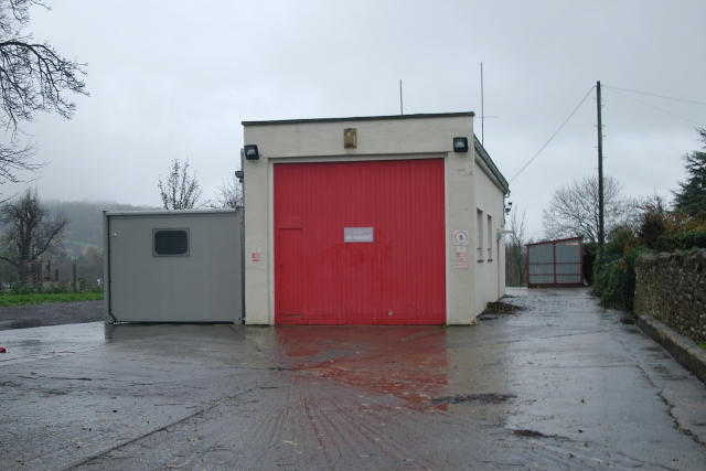 Broadway fire station Broadway fire station, Keytes Lane, Broadway, Worcestershire, is tucked away off the High Street, and forms part of the Hereford & Worcester Fire Service.